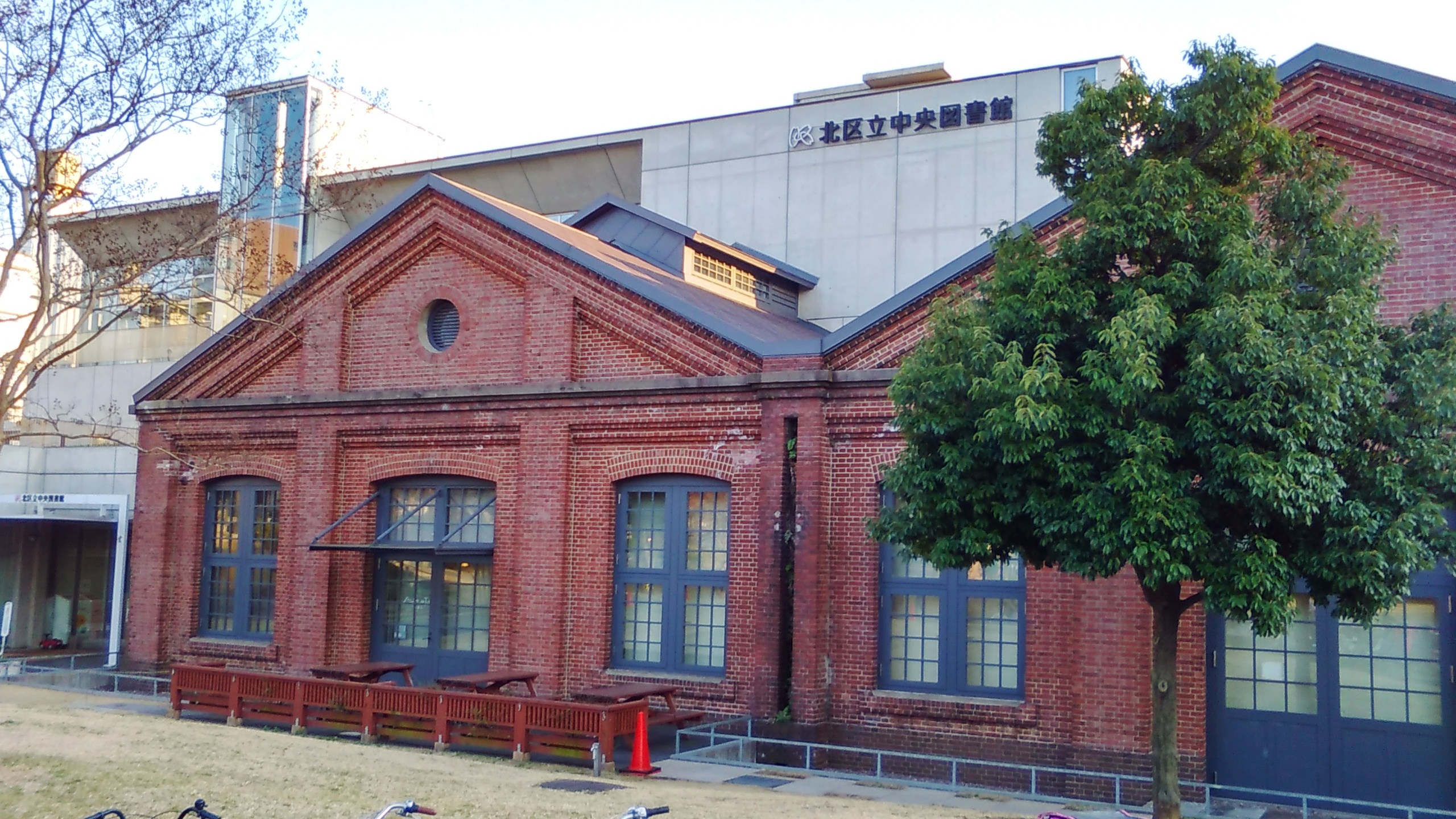 Kita City Central Library in Kita-ku, Tokyo, Japan. Cropped from the original image (4:3 to 16:9).